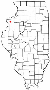 Category:Illinois city locator maps